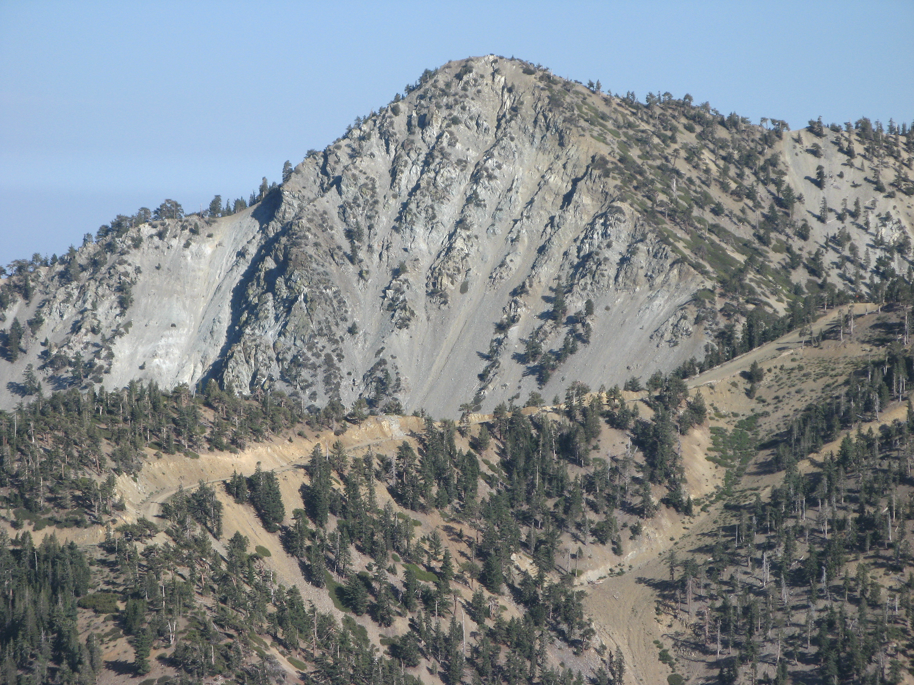 Telegraph Peak 2,739 m (8985 ft) in San Gabriel Mountains as seen from Devils Backbone ridge in Mount San Antonio.